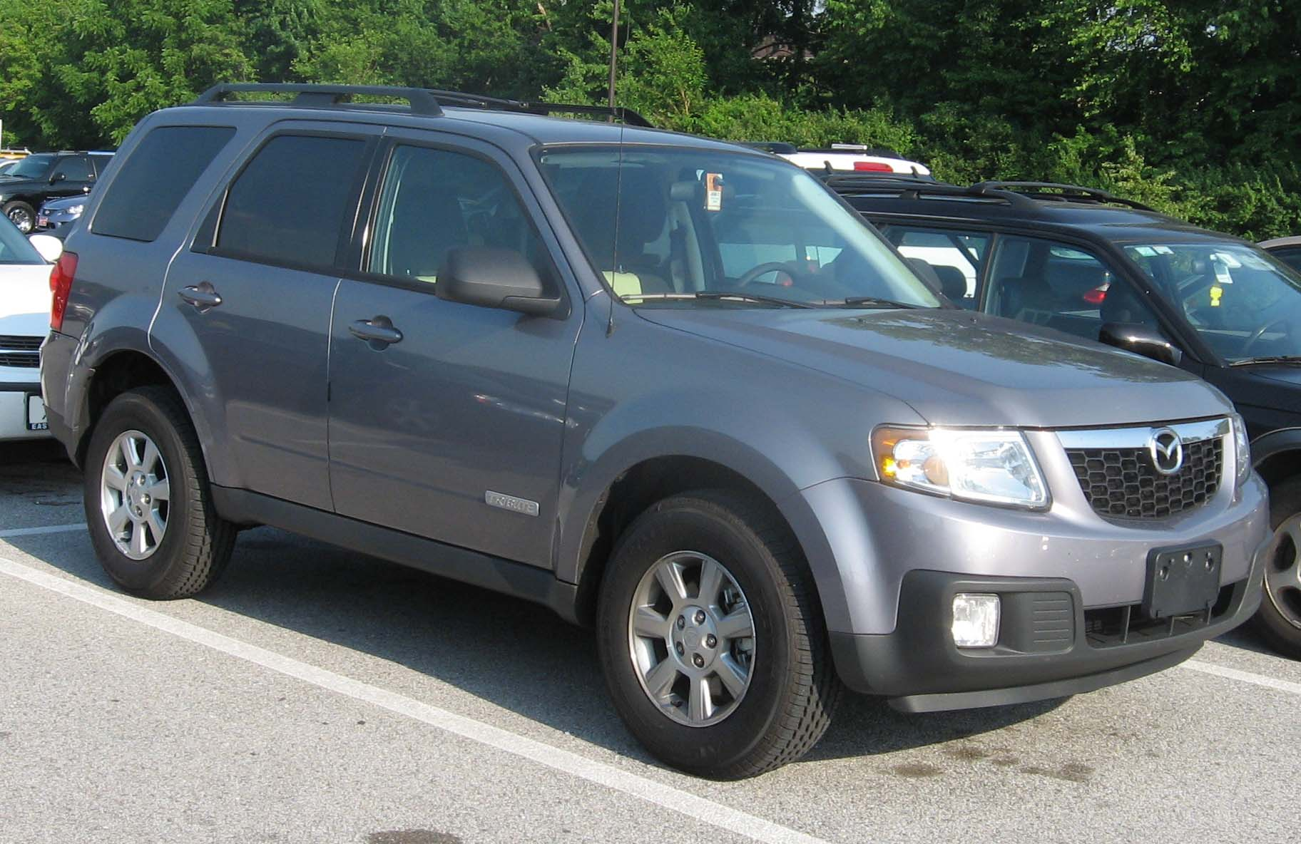 2008 Mazda Tribute photographed in USA.